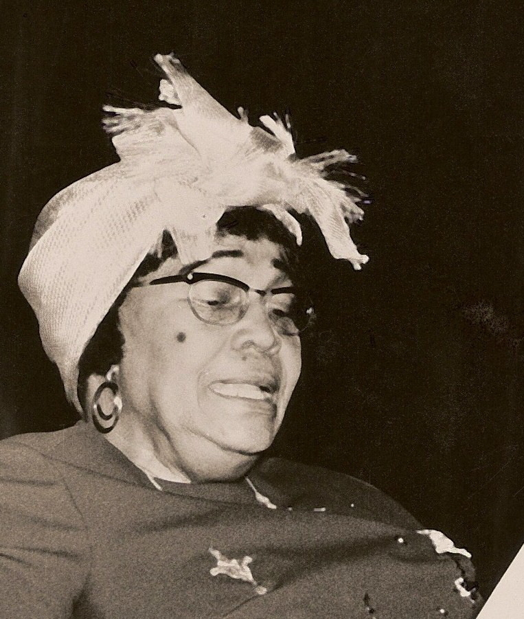 Johanna Schouten-Elsenhout, poet from Suriname